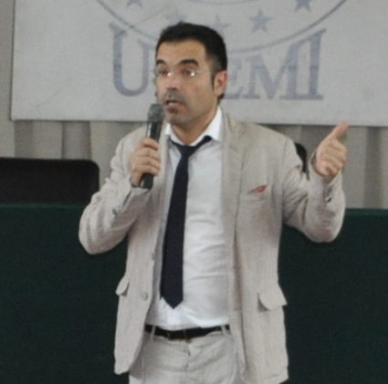 Angel Barrasa